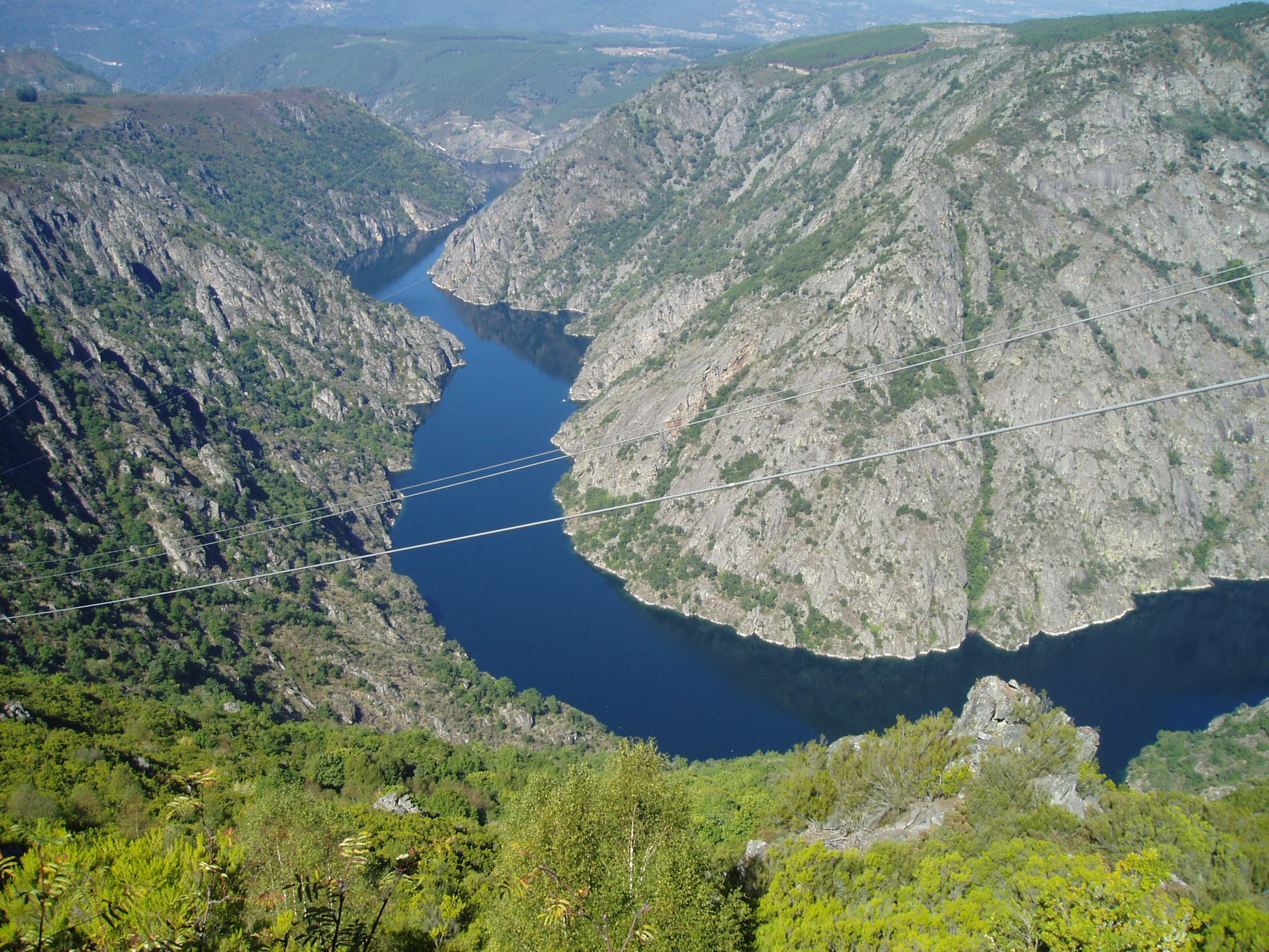 canón do Sil, Galicia